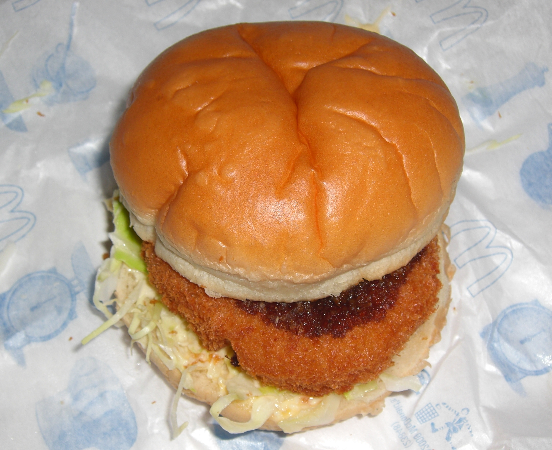 gracoro gracoro gurakoro(Gratin Croquette Hamburger) 2011.12 jMcDonald's apan